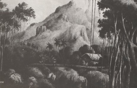 House of Fletcher Christian, leader of mutiny on Bounty, Pitcairn Island